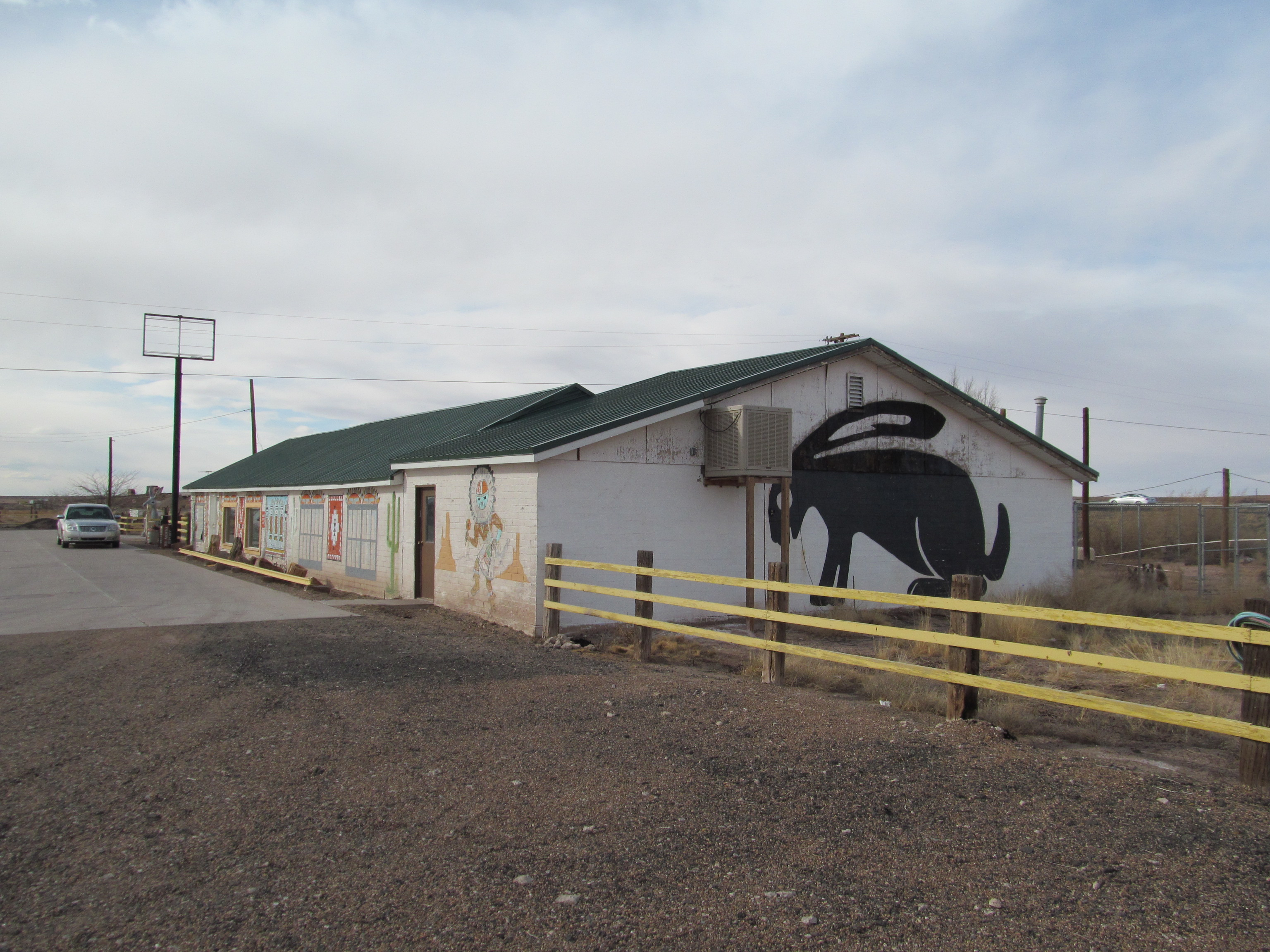 Jack Rabbit Trading Post, Joseph City Arizona